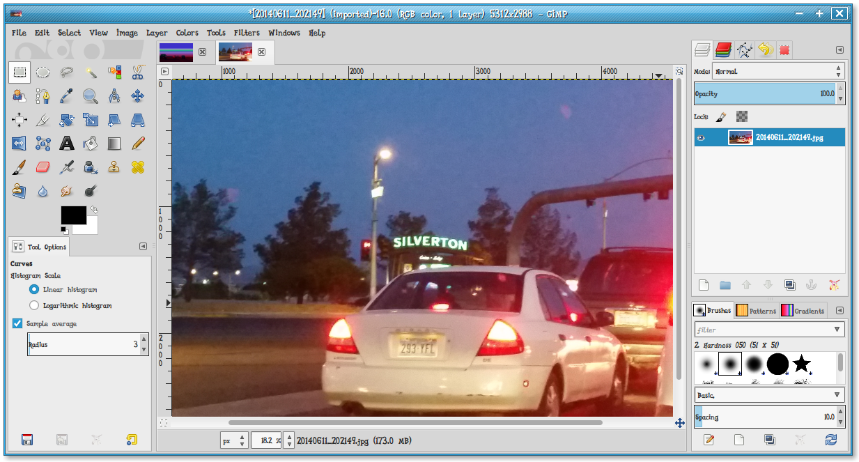 A screenshot of GIMP running on a GNU/Linux system.